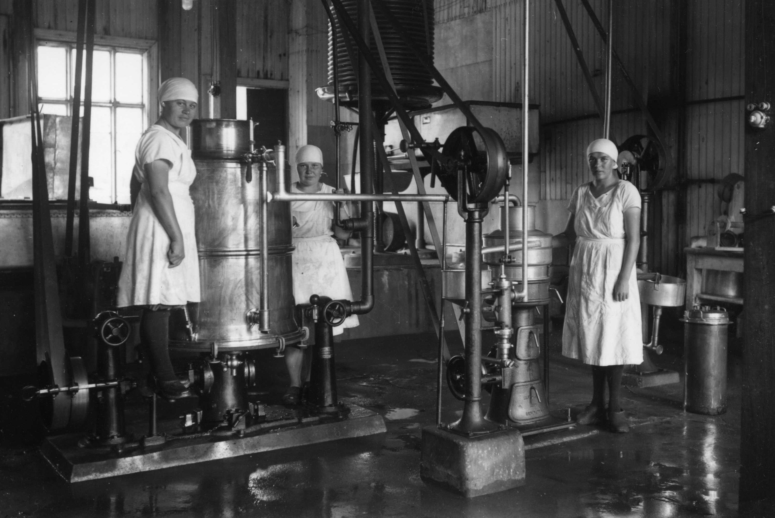 Interior of Jämsä dairy in Finland in 1930s